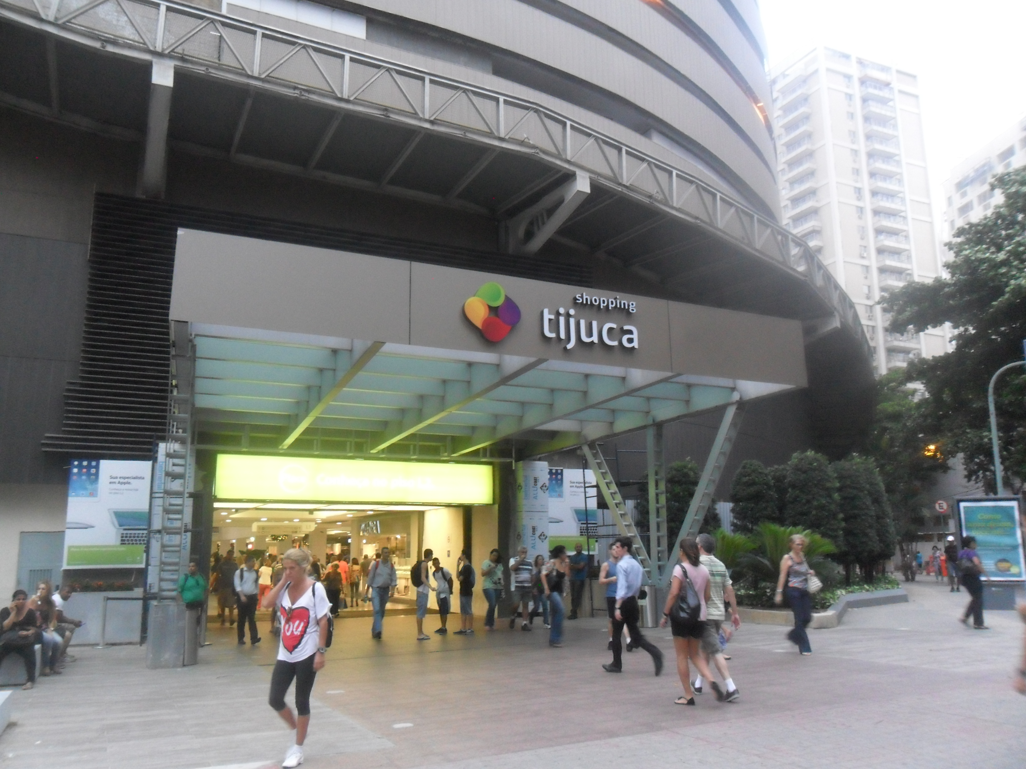 Shopping Tijuca